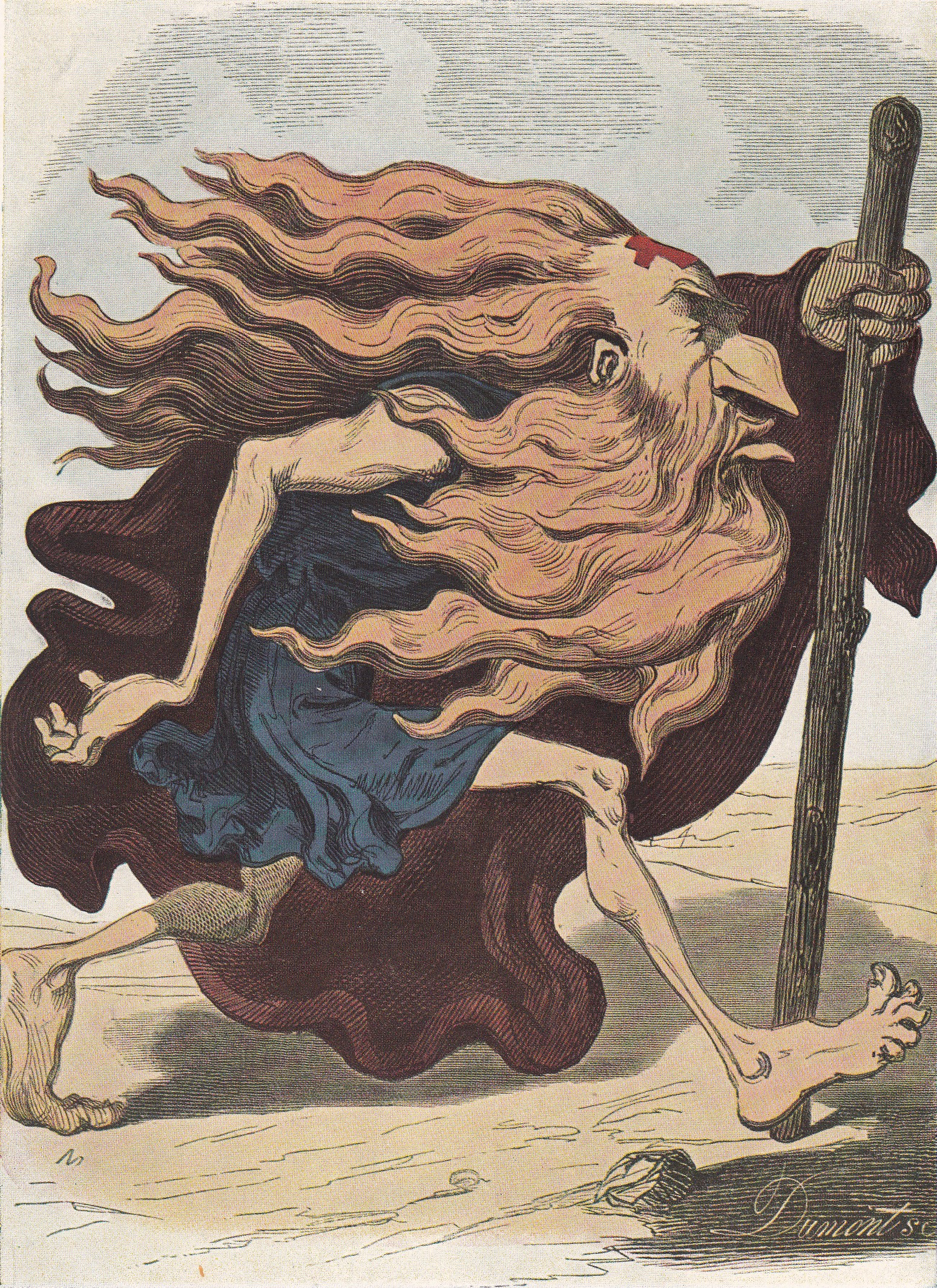 Gustave Doré's The Wandering Jew, 1852